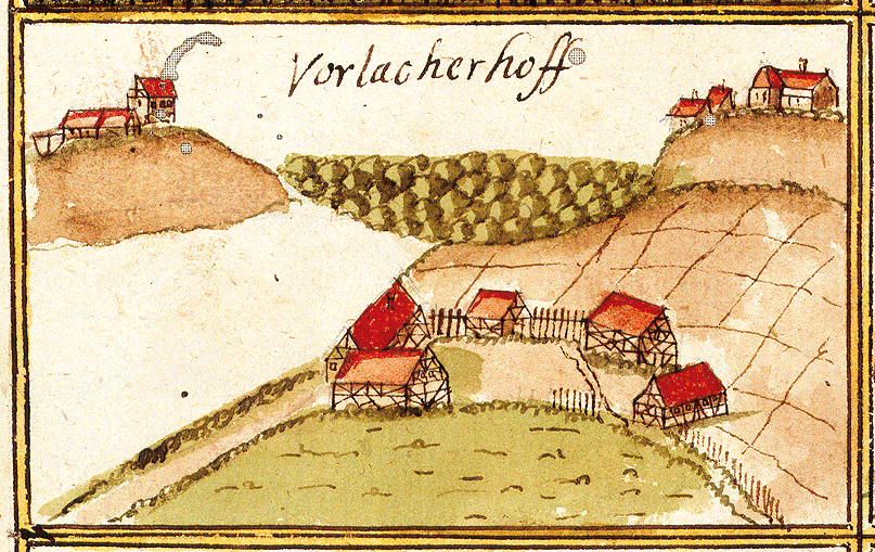 View of Vohenlohe, Abstatt, from the forest register books created by Andreas Kieser